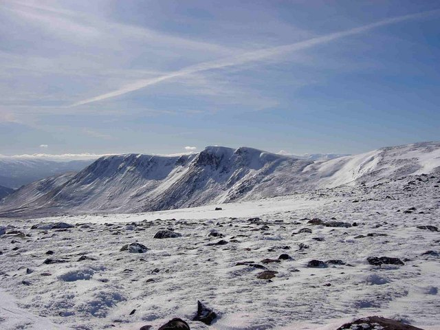 Carn Dearg. Carn Dearg plateau on a beautiful icy winter's day